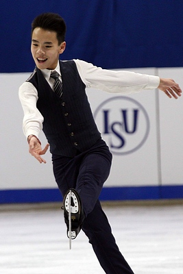 Canadian figure skater Nam Nguyen at the 2015 Four Continents Figure Skating Championships.